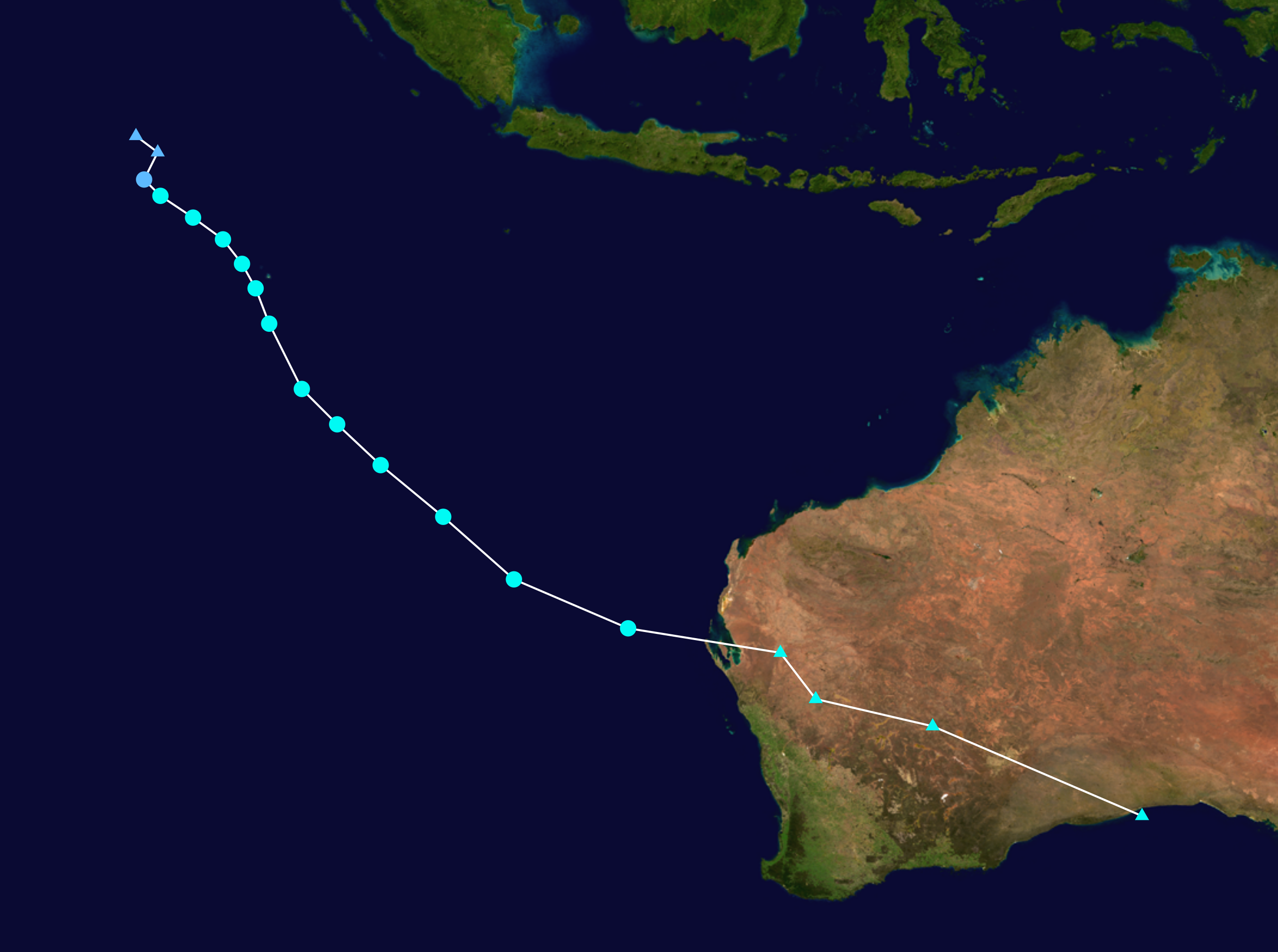 Cyclone Herbie (1988) track. Uses the color scheme from the Saffir-Simpson Hurricane Scale.